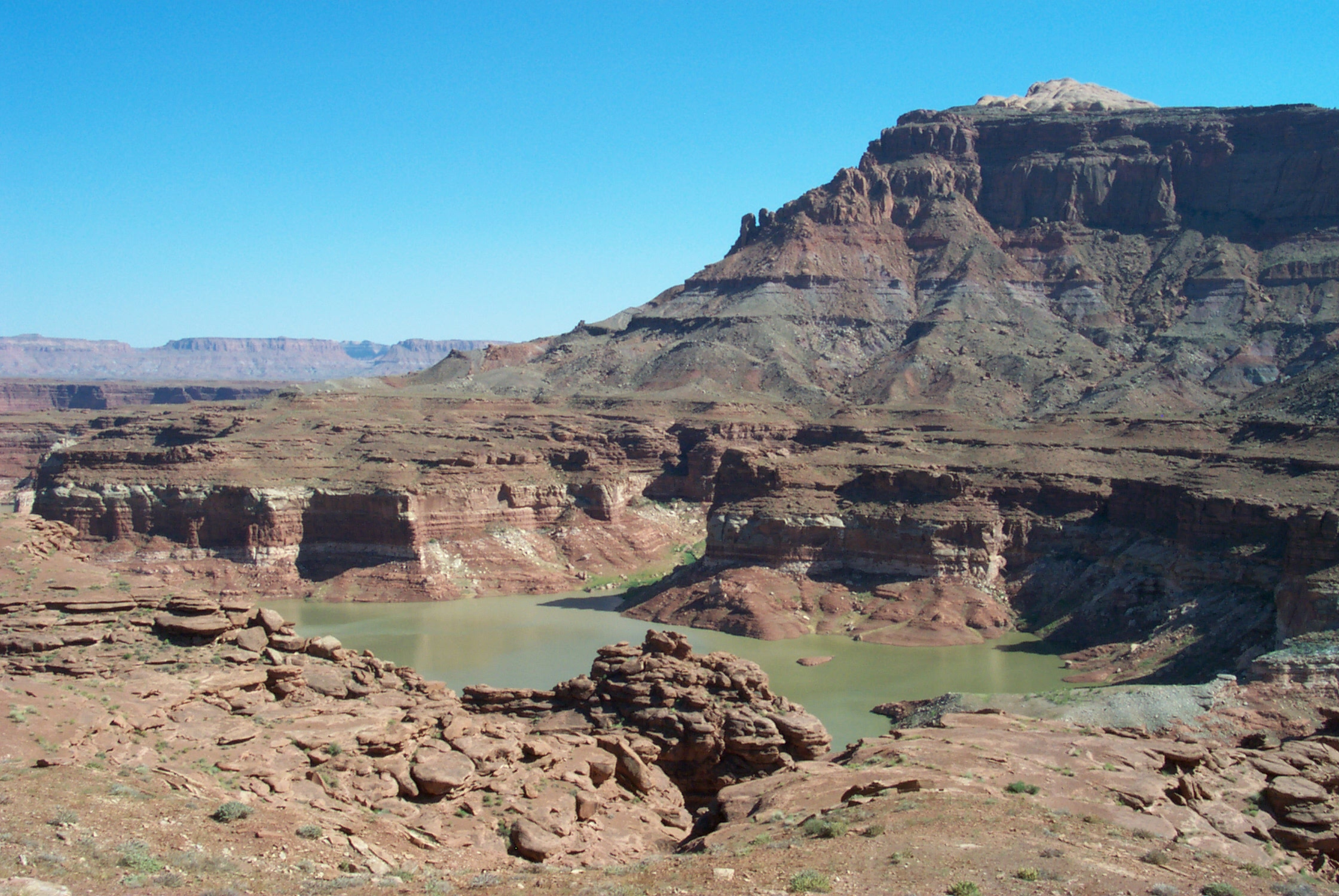 Roadside picture from Highway 95 in Utah